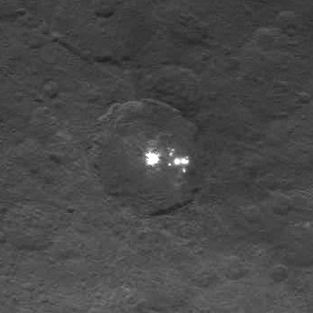 PIA19559: Dawn OpNav8 Image 1 - CROPPED VERSION UPLOADER NOTE: Original image (1024x1024/84.7 KB) was cropped (340x340/14.1 KB) and then enlarged (640x640/33.1 KB) - via JASC Paint Shop Pro v 6.02. This image of Ceres is part of a sequence taken by NASA's Dawn spacecraft on May 16, 2015, from a distance of 4,500 miles (7,200 kilometers). Dawn's mission is managed by JPL for NASA's Science Mission Directorate in Washington. Dawn is a project of the directorate's Discovery Program, managed by NASA's Marshall Space Flight Center in Huntsville, Alabama. UCLA is responsible for overall Dawn mission science. Orbital ATK, Inc., in Dulles, Virginia, designed and built the spacecraft. The German Aerospace Center, the Max Planck Institute for Solar System Research, the Italian Space Agency and the Italian National Astrophysical Institute are international partners on the mission team. For a complete list of acknowledgements, visit For more information about the Dawn mission, visit